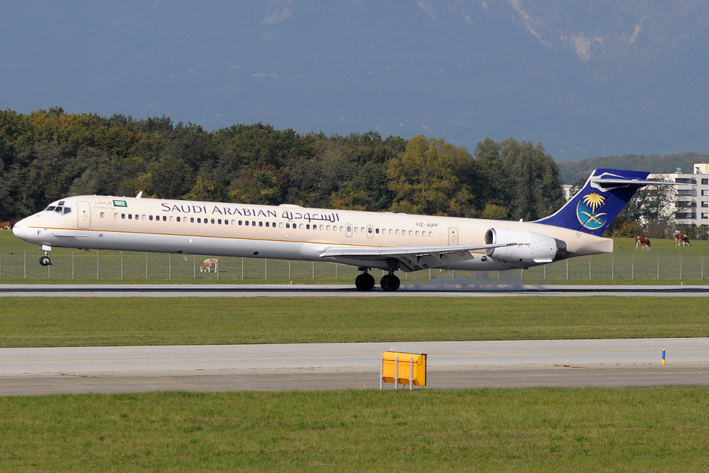 A Saudi Arabian Airlines MD-90-30 landing in Geneva